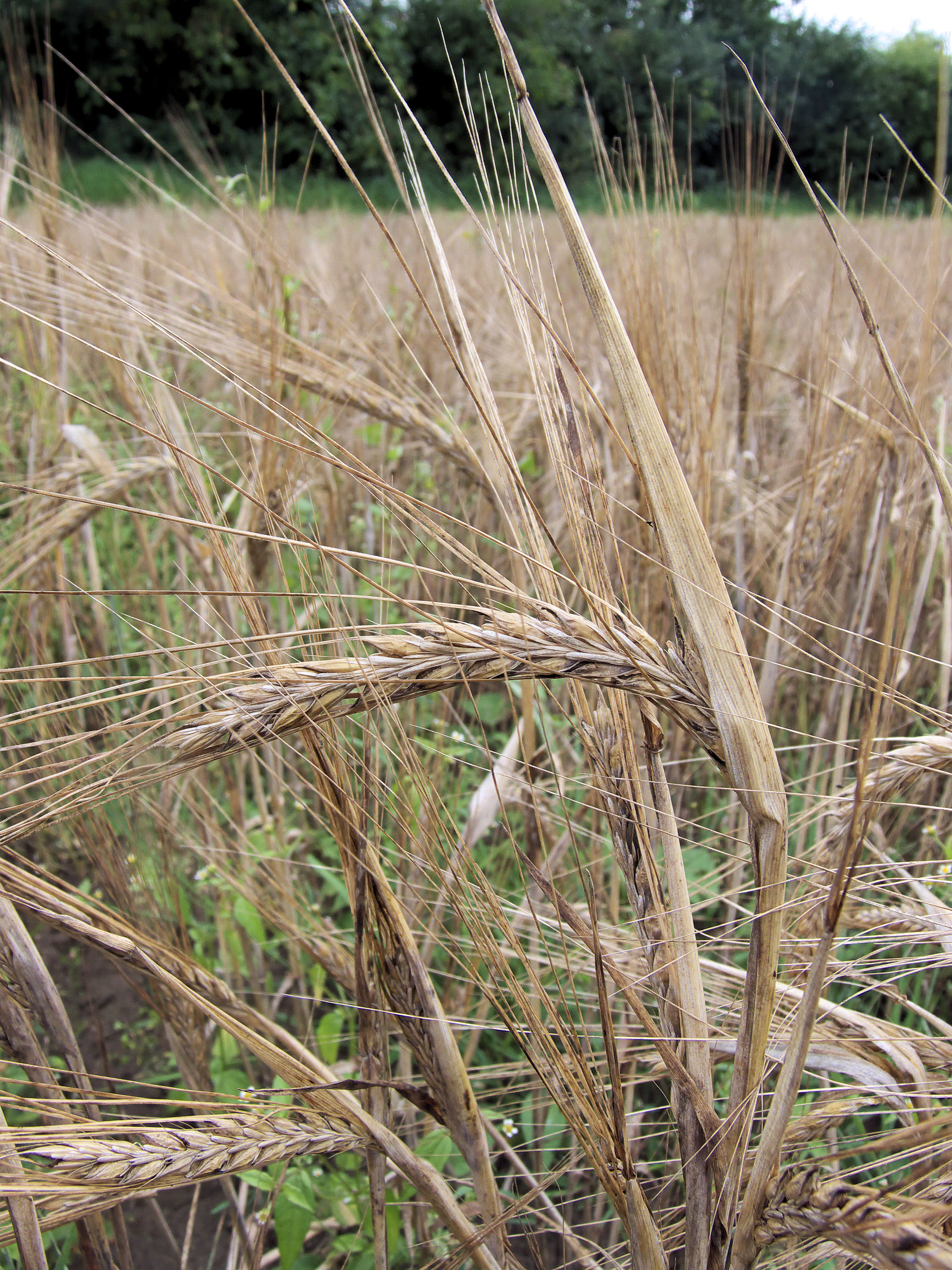 Hordeum vulgare ripe, two rows